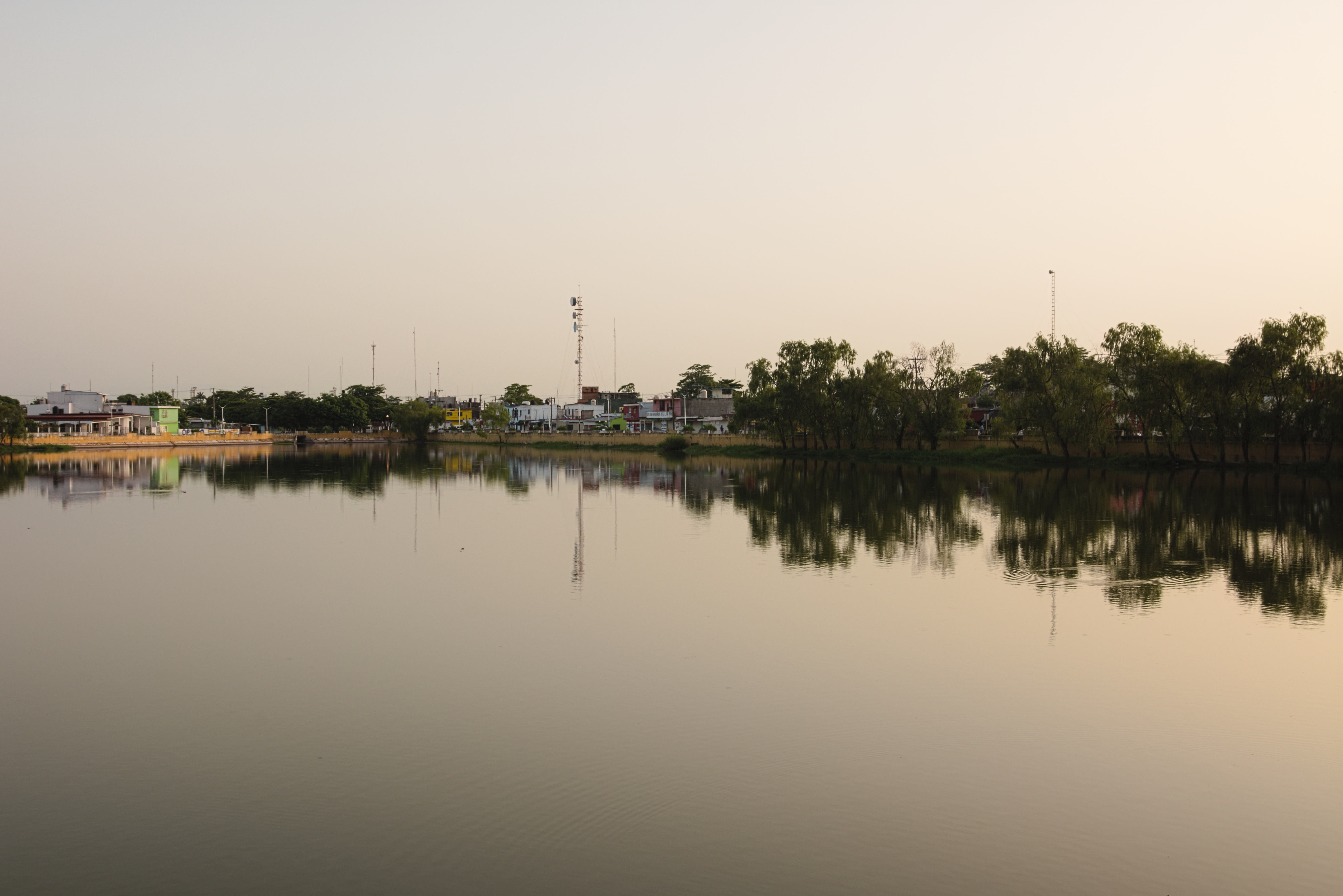 Lake Popalillo in Balancan, Tabasco, Mexico